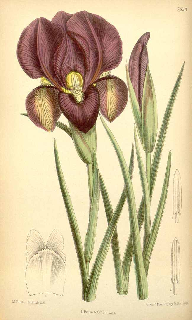 Illustration of an iris found in Turkey, Iraq, Azerbaijan and Iran, by Matilda Smith